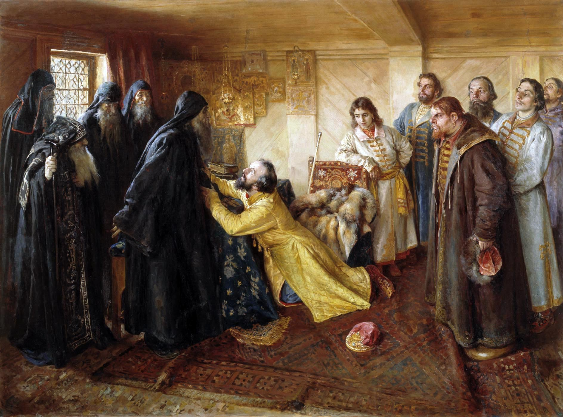 Tsar Ivan the Terrible asks hiegumen Kornily to admit him into monks, Oil on canvas